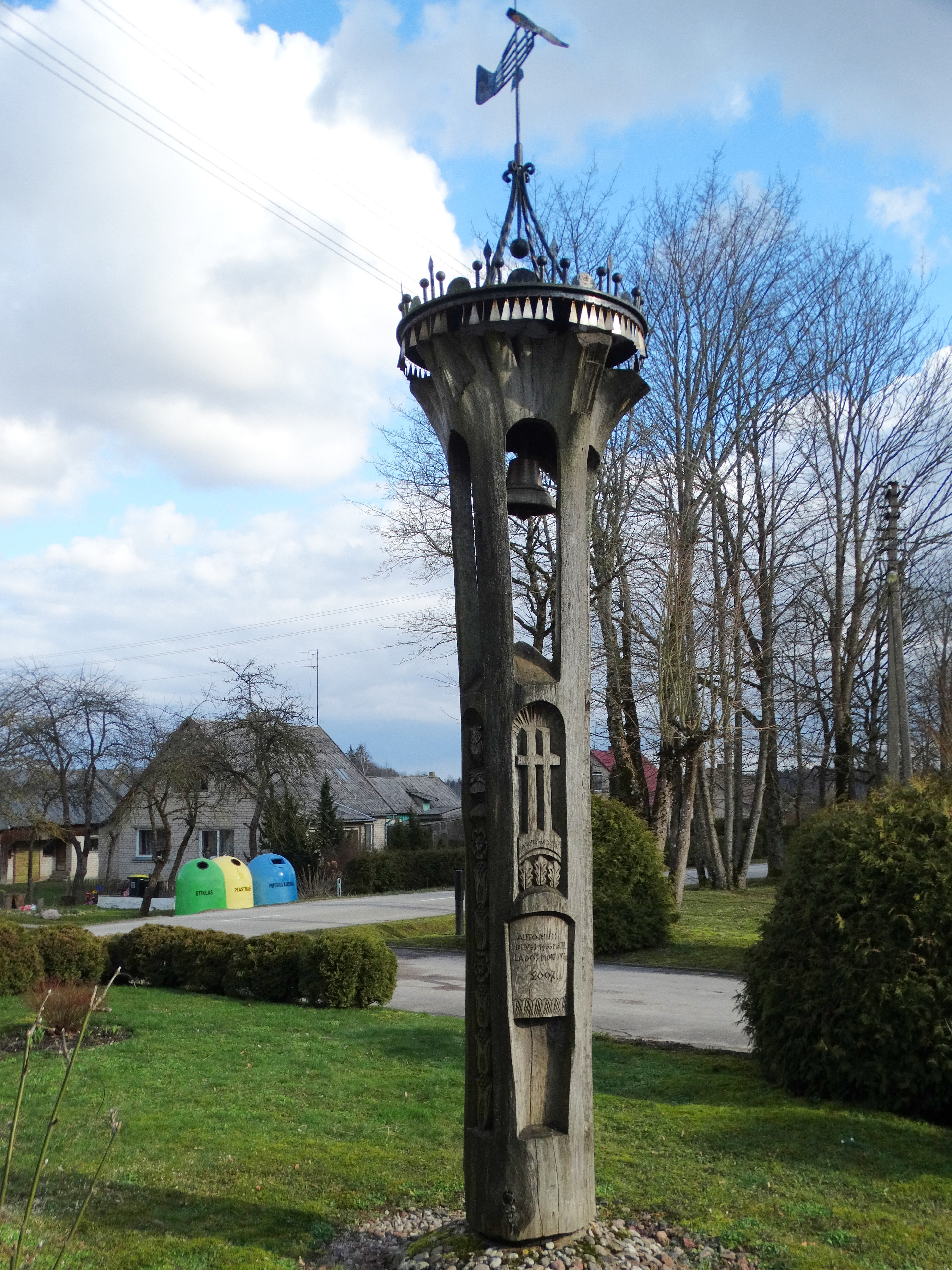 Judrėnai, Klaipėda District. Lithuania